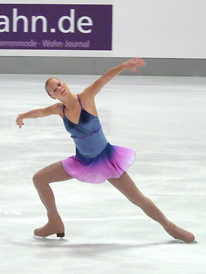 Karen Venhuizen during her short program at the 2007 Nebelhorn Trophy.